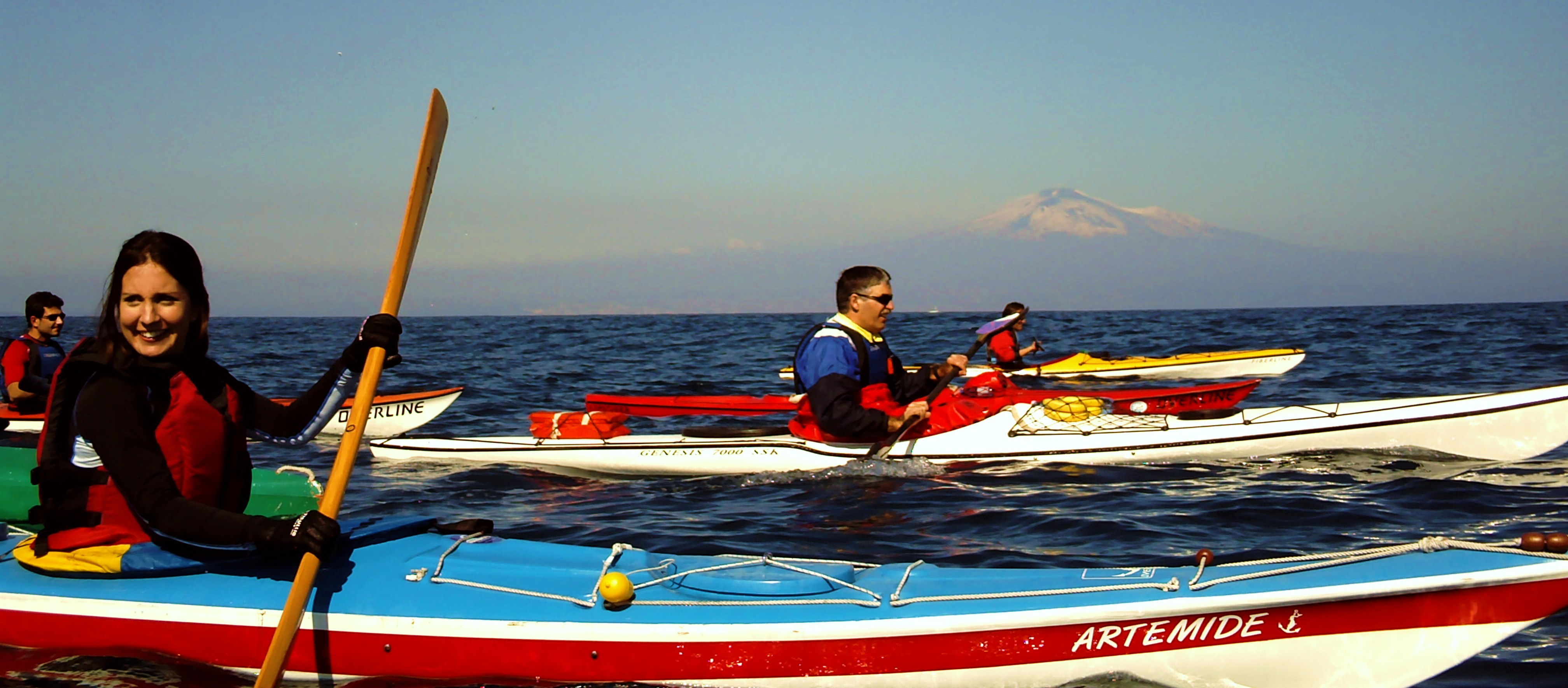 From Brucoli to Augusta in Kayak